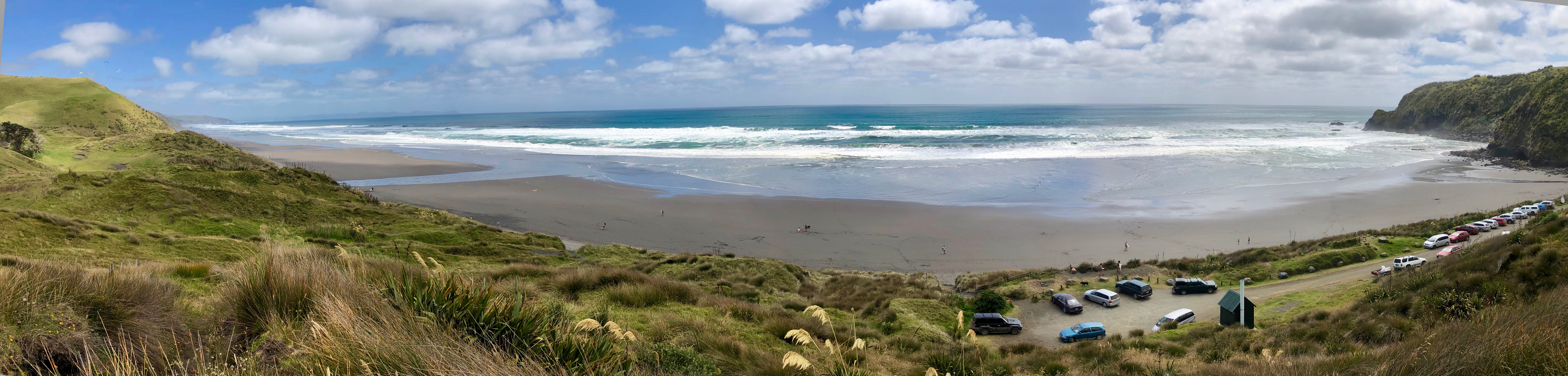 North end of Ruapuke Beach